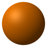 An orange sphere rendered with POV-Ray ray tracer. Source text: #version 3.5; #include "colors.inc" camera { location right x * image_width / image_height look_at } sky_sphere { pigment { color White } } light_source { color White } sphere { , 1 texture { finish { ambient 0.3 specular 0.2 } pigment { color Orange } } }